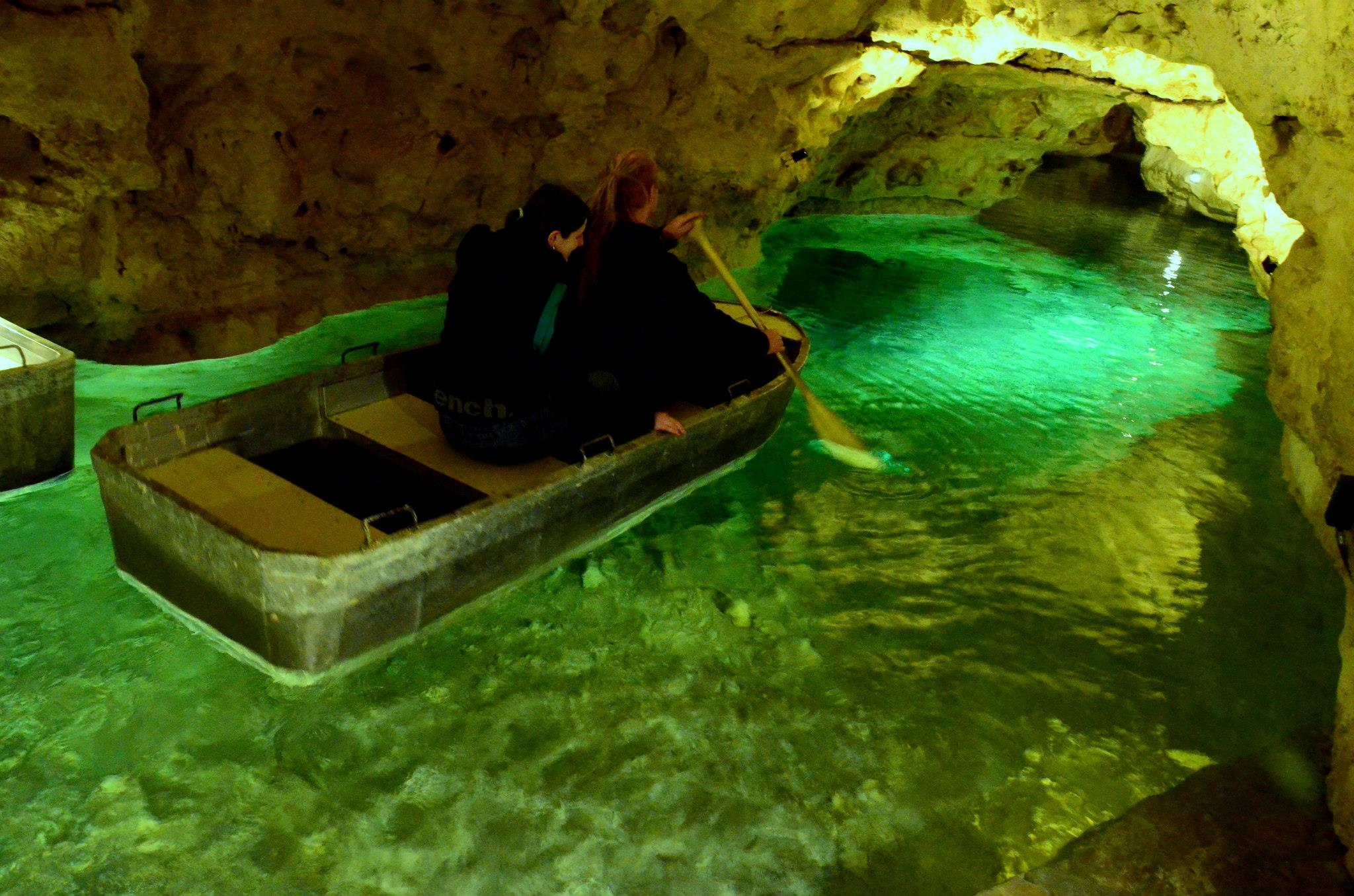 Boat Ride, Lake Cave Tapolca